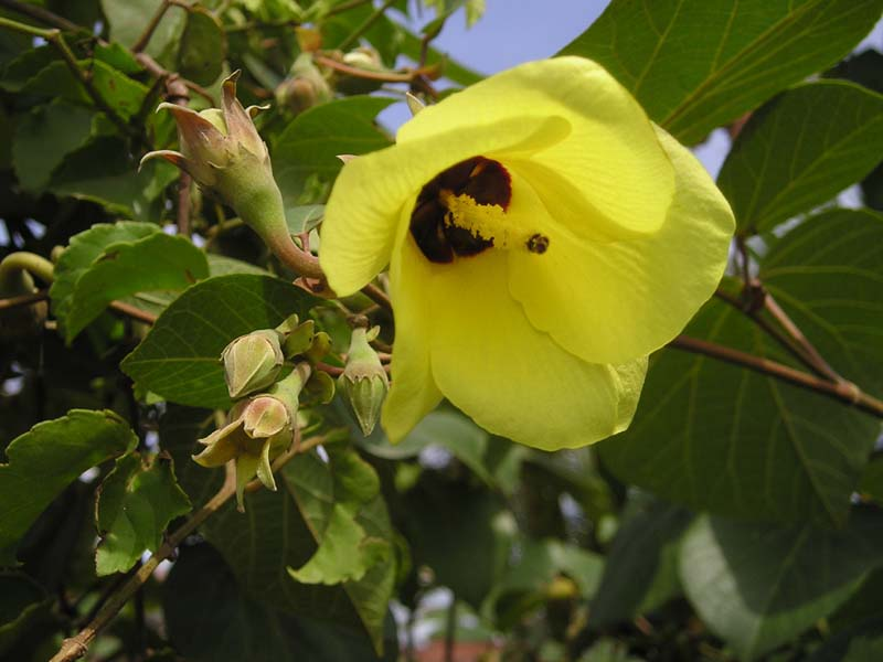 Thespesia_populnea